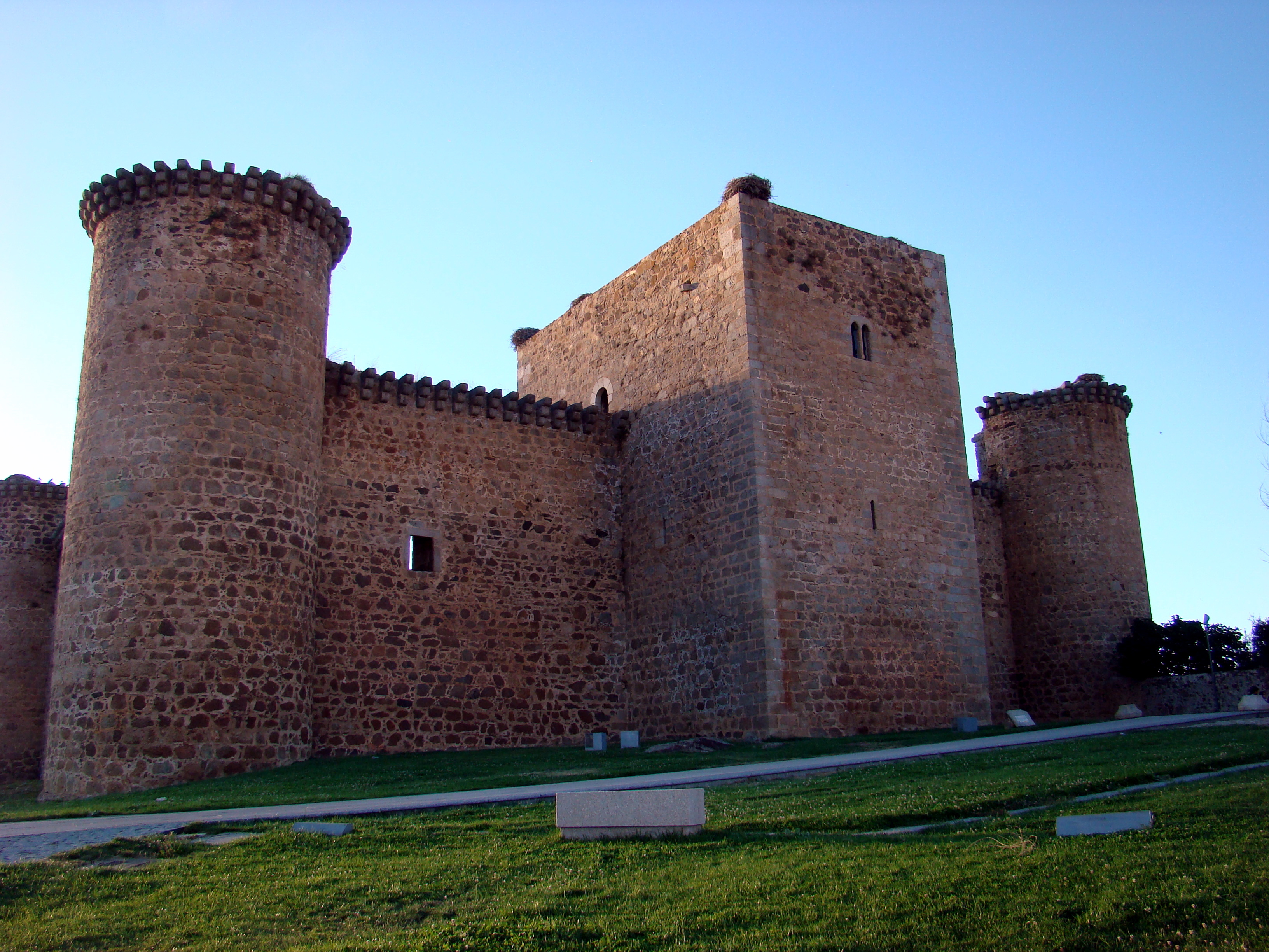 Image of the castle of Valdecorneja, Barco de Ávila, province of Ávila, Spain.